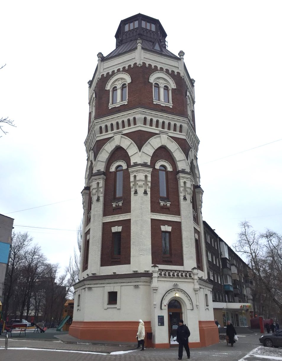 Old Water Tower in Mariupol. Today a tourist information center.